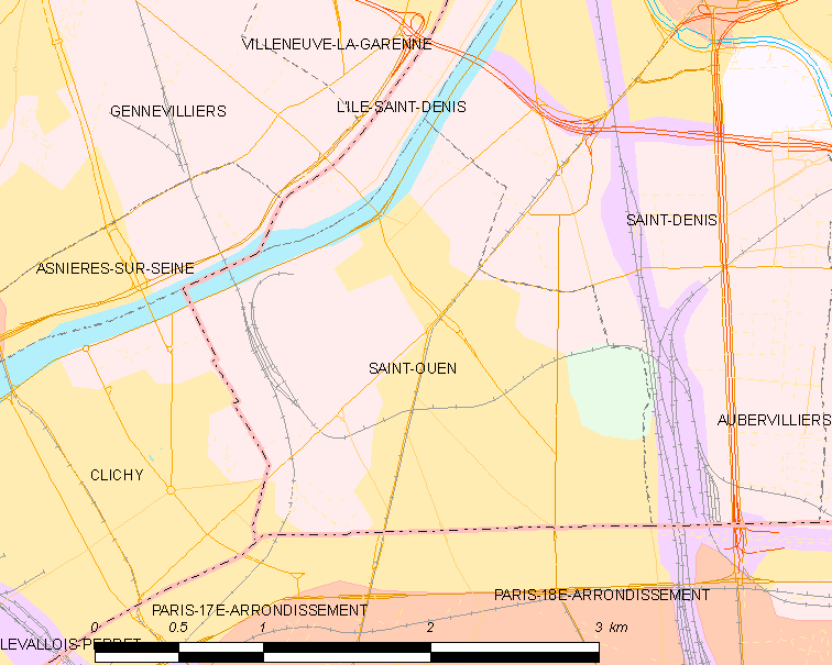 Map of French municipality Saint-Ouen